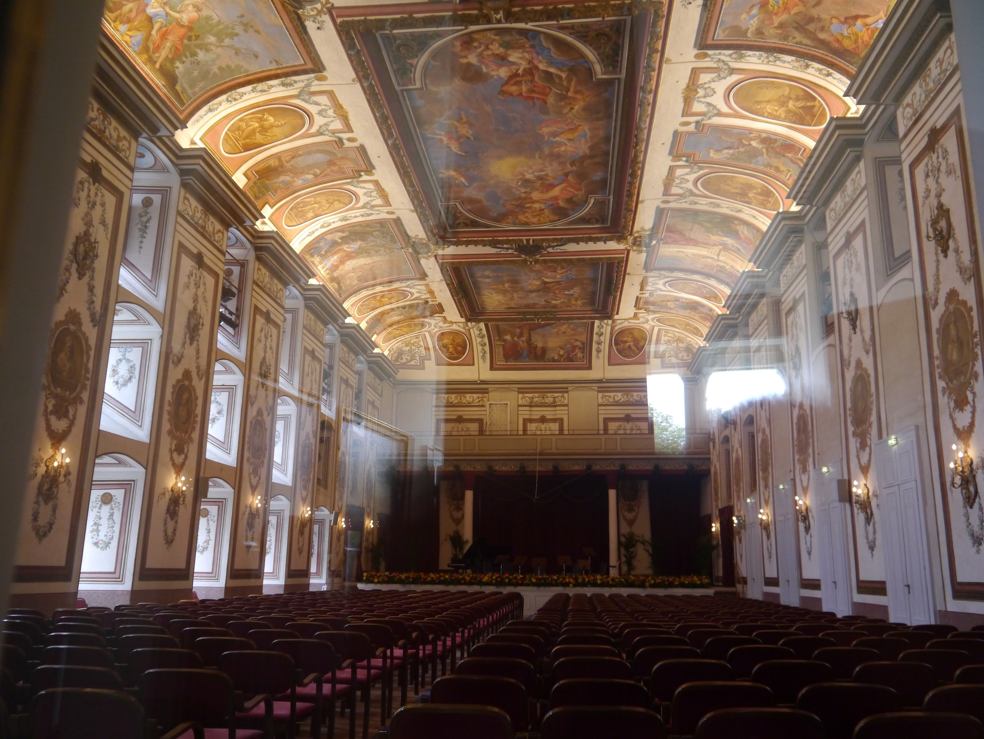 Haydn Hall of Eszterházy Castle, Eisenstadt